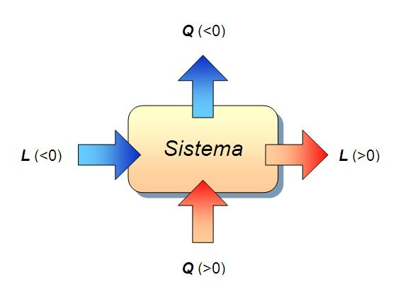 Conventional signs associated to heat and work in a thermodynamic transformation.